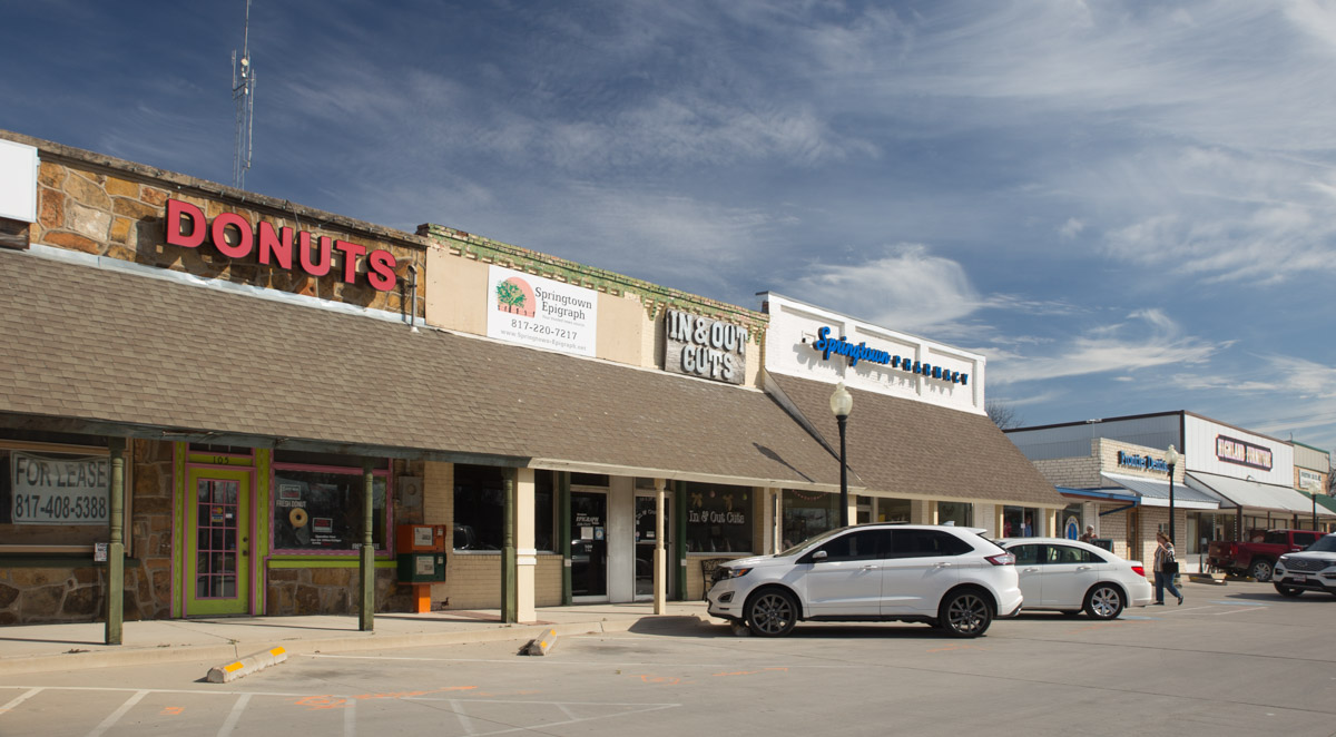 Downtown Springtown, Texas